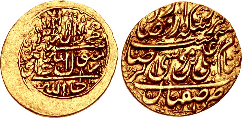 Coin of the Qajar chieftain Mohammad Hasan Khan Qajar.